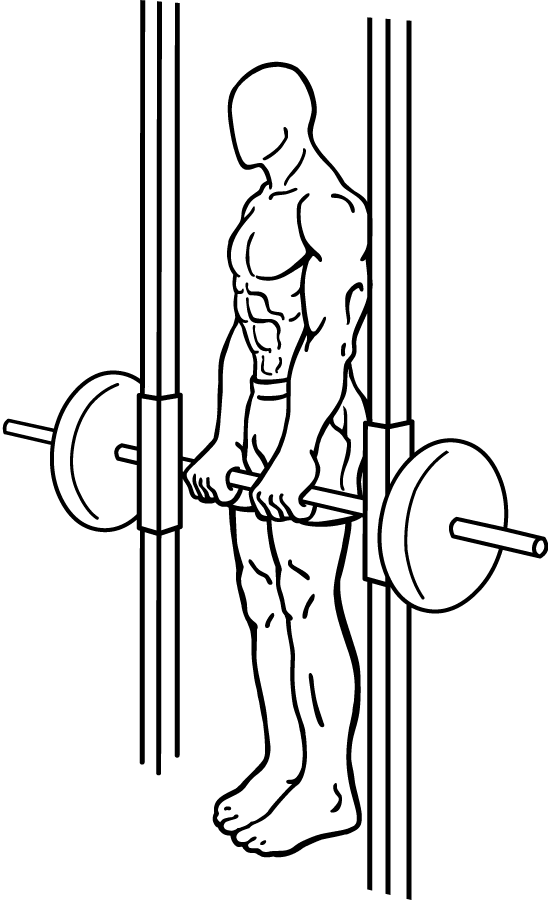 an exercise of lower back